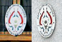 Comparisons of the official coat of arms of Niger, as used in two Embassies of the Republic of Niger (to Canada and to the United States of America). Cropped, added contrast, and placed side by side.